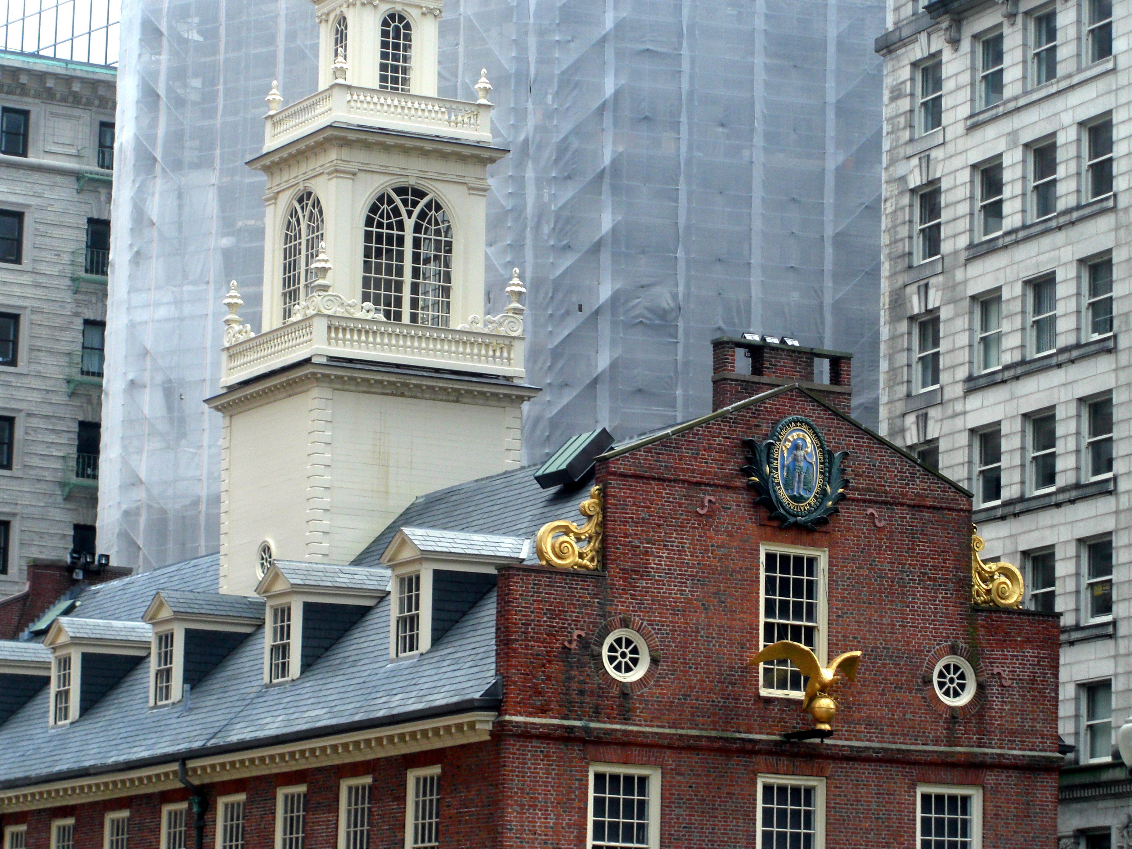 The Old State House in Downtown Boston